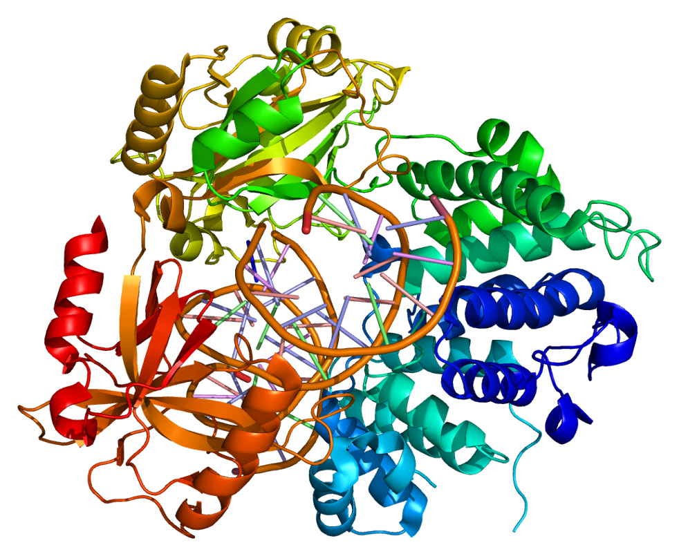 Structure of the LIG1 protein. Based on PyMOL rendering of PDB 1x9n.